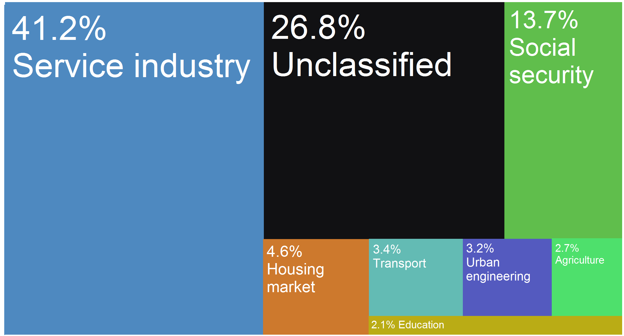 Diagram illustrating the city's budget sources.